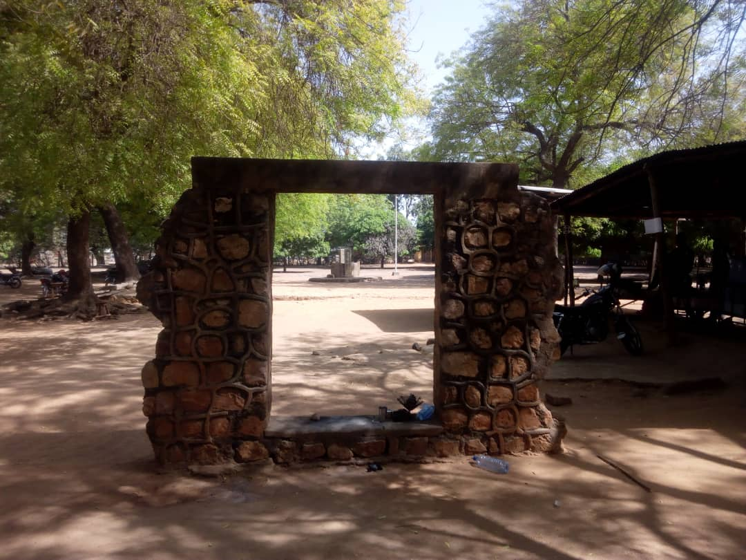 Front view of the Ségbana prison in 2018. Ségbana is a town located in northeastern Benin, capital of the commune of the same name, in the department of Alibori